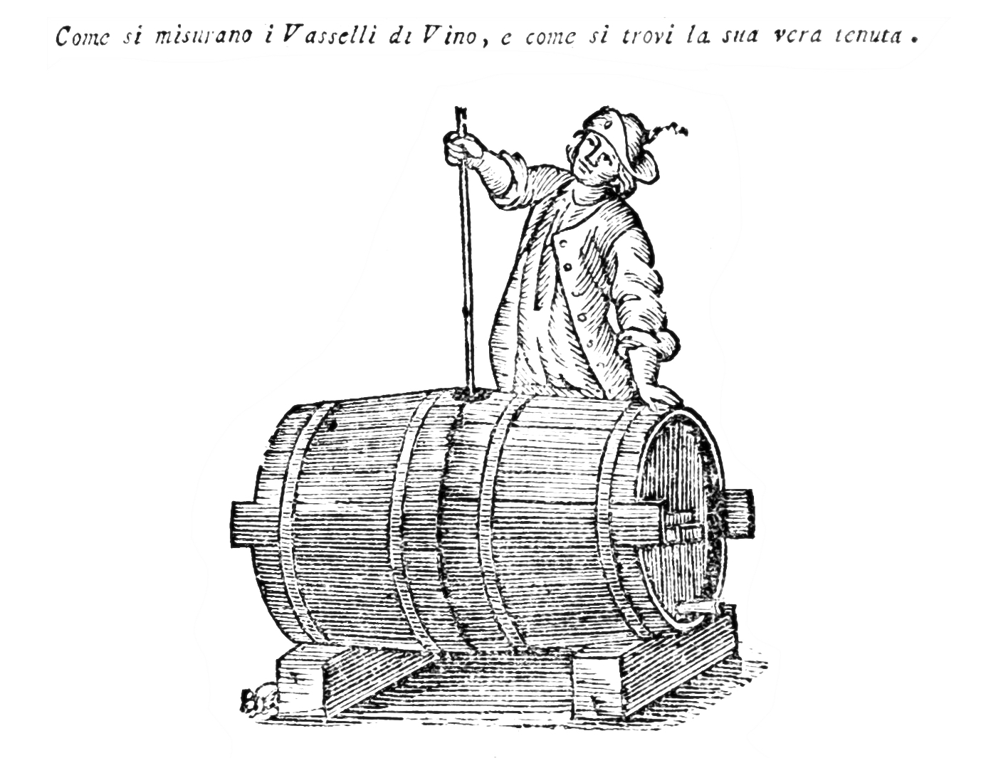 Italian text: Come si misurano i Vasselli di vino, e come si trovi la sua vera tenuta. Translation: How to measure barrels of wine, and how to find their true volume.